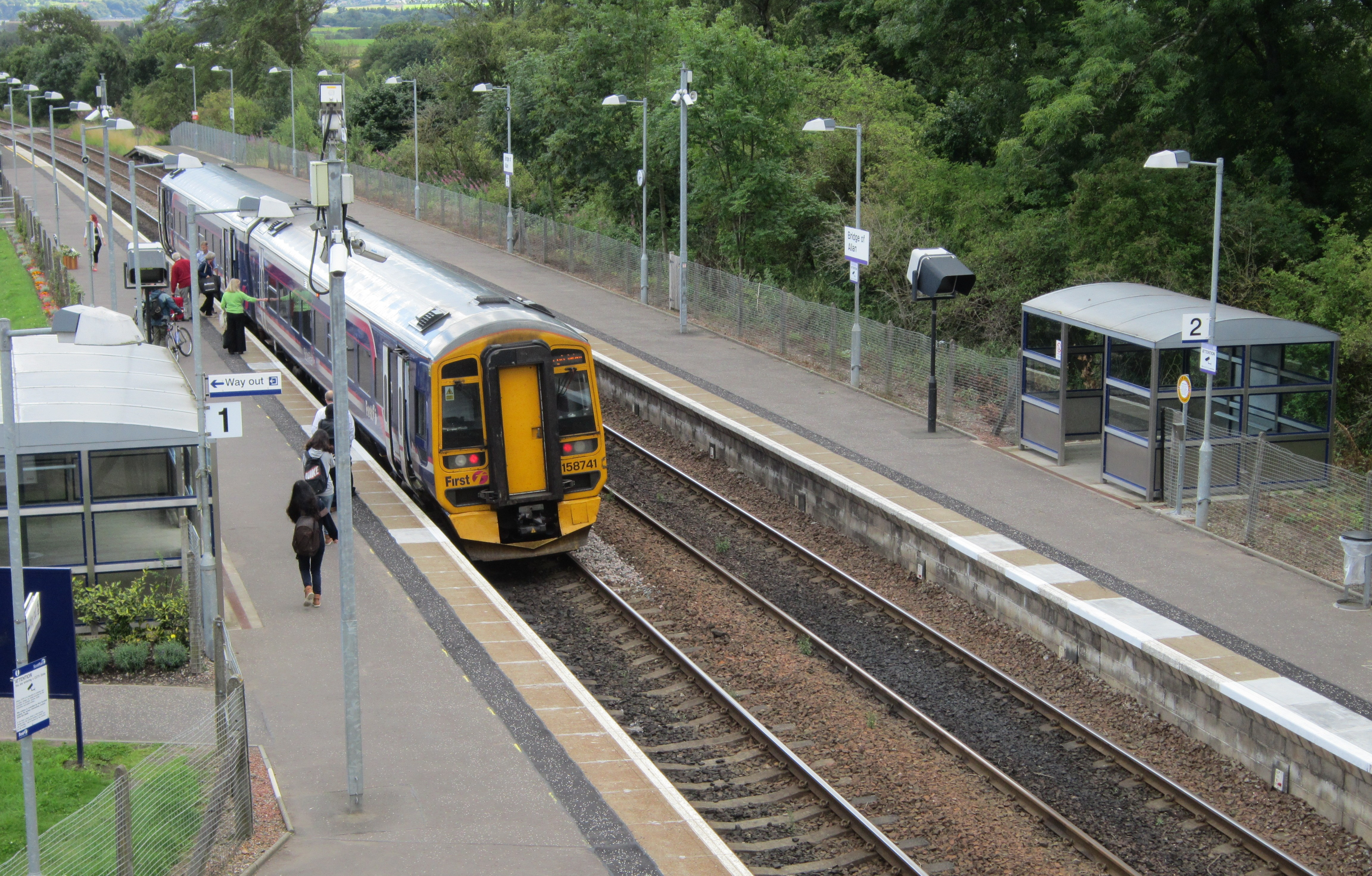 Bridge of Allan railway station